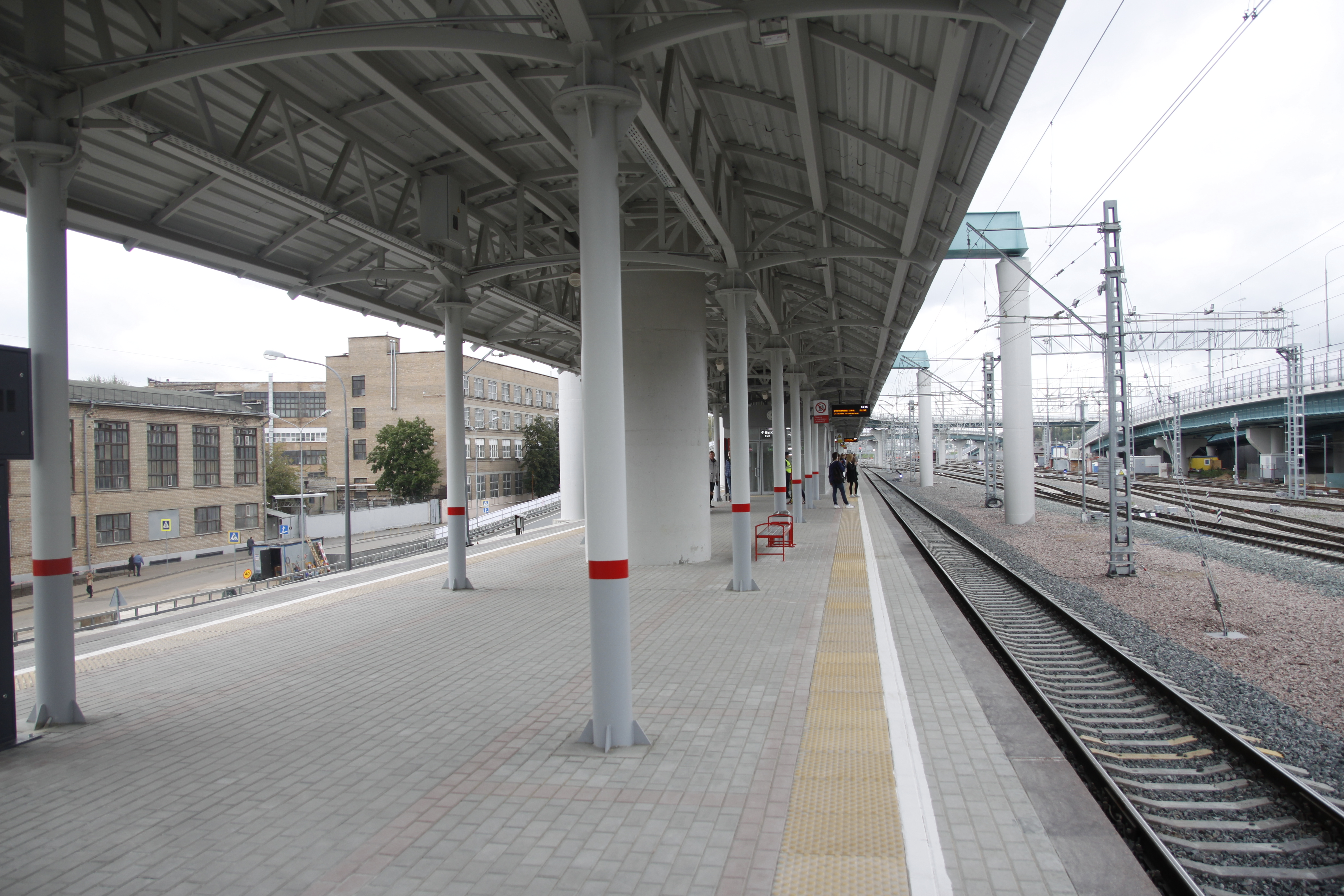 Shosse Entuziastov MCC station